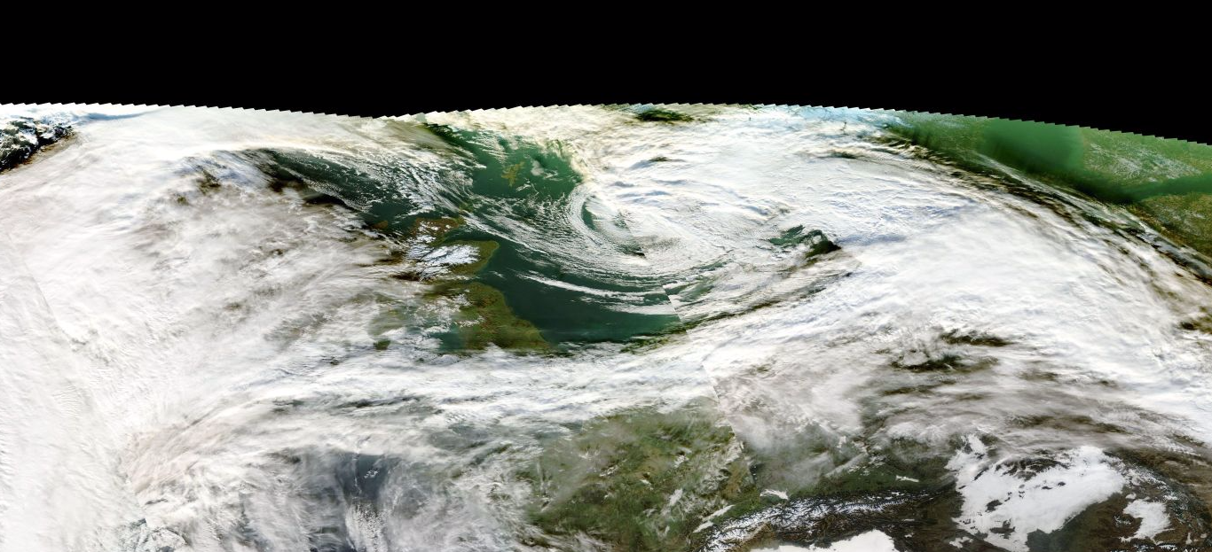 Storm Eva on 27 December 2015.